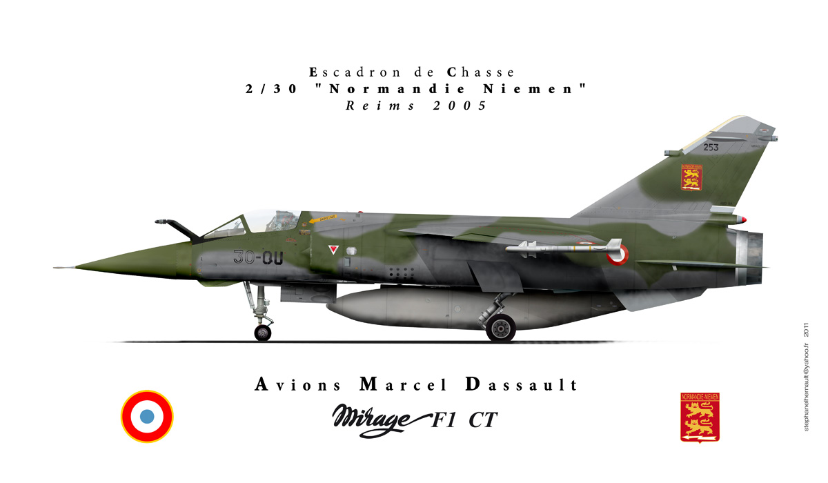 Mirage F1CT 2/30 normandie niemen squadron French Air Force